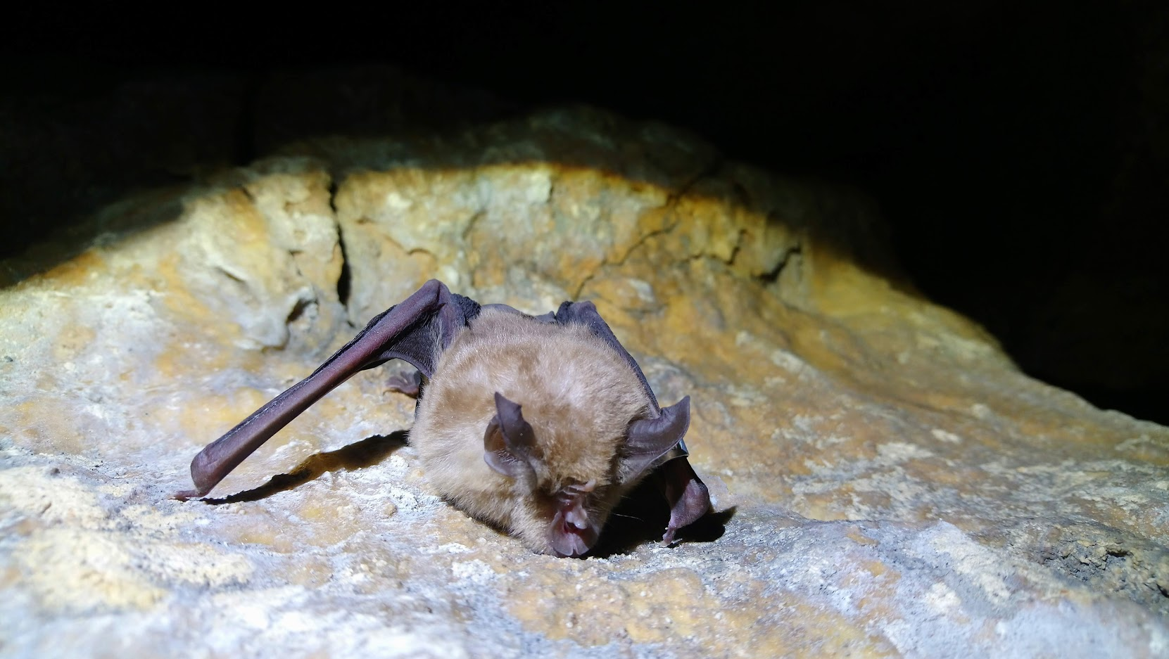 A photograph of a greater horseshoe bat.